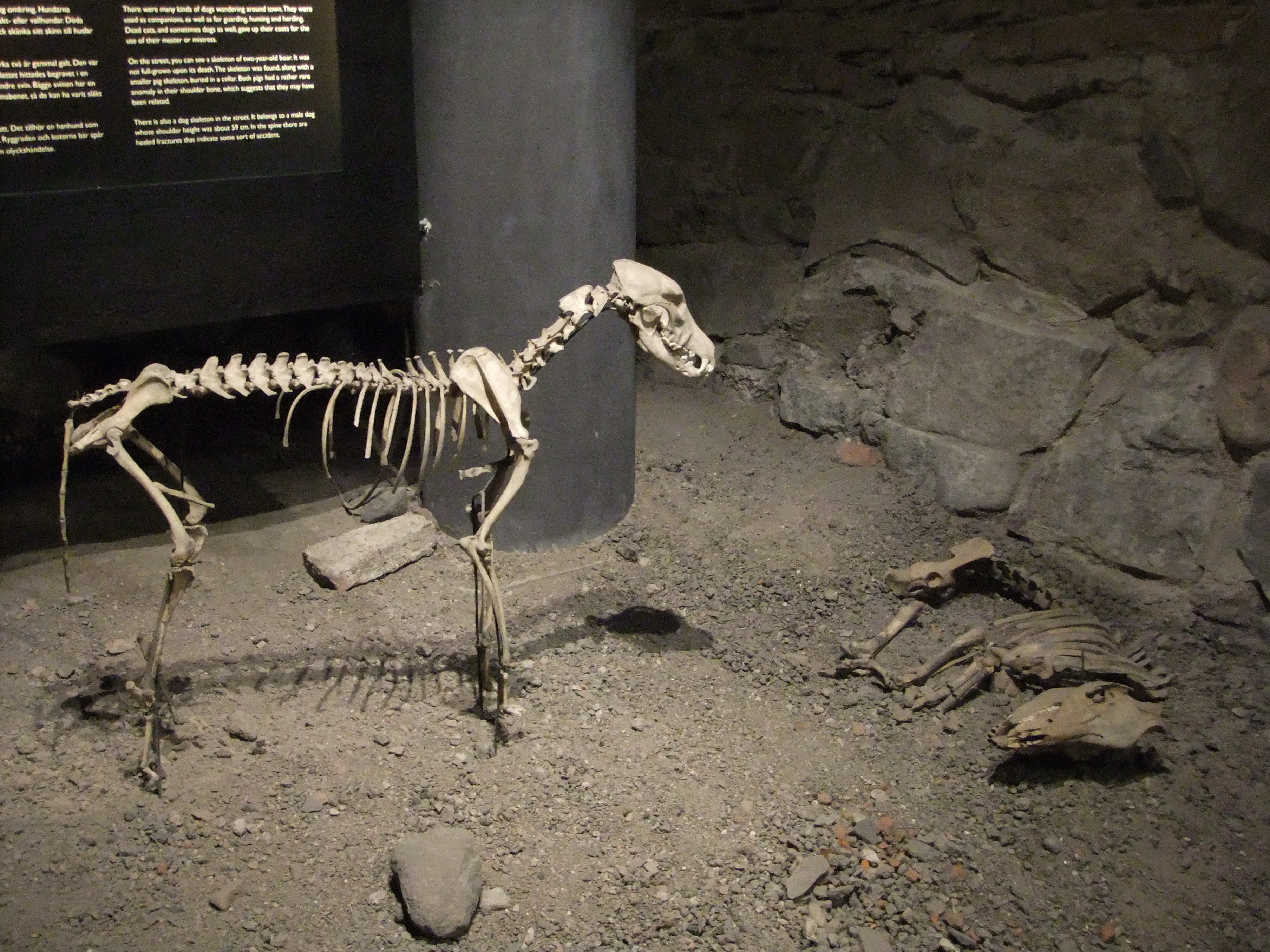 Skeletons of a dog and a pig in Aboa Vetus & Ars Nova Museum in Turku, Finland.